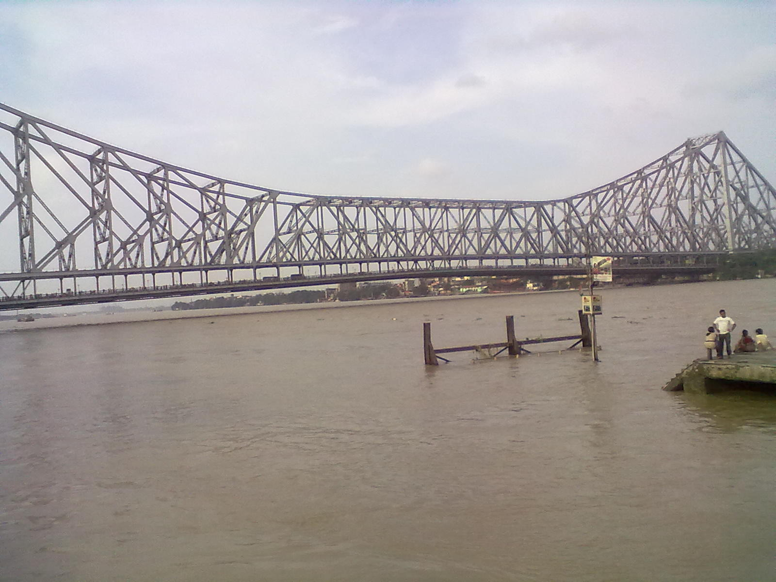 Rabindra setu in Hooghly river